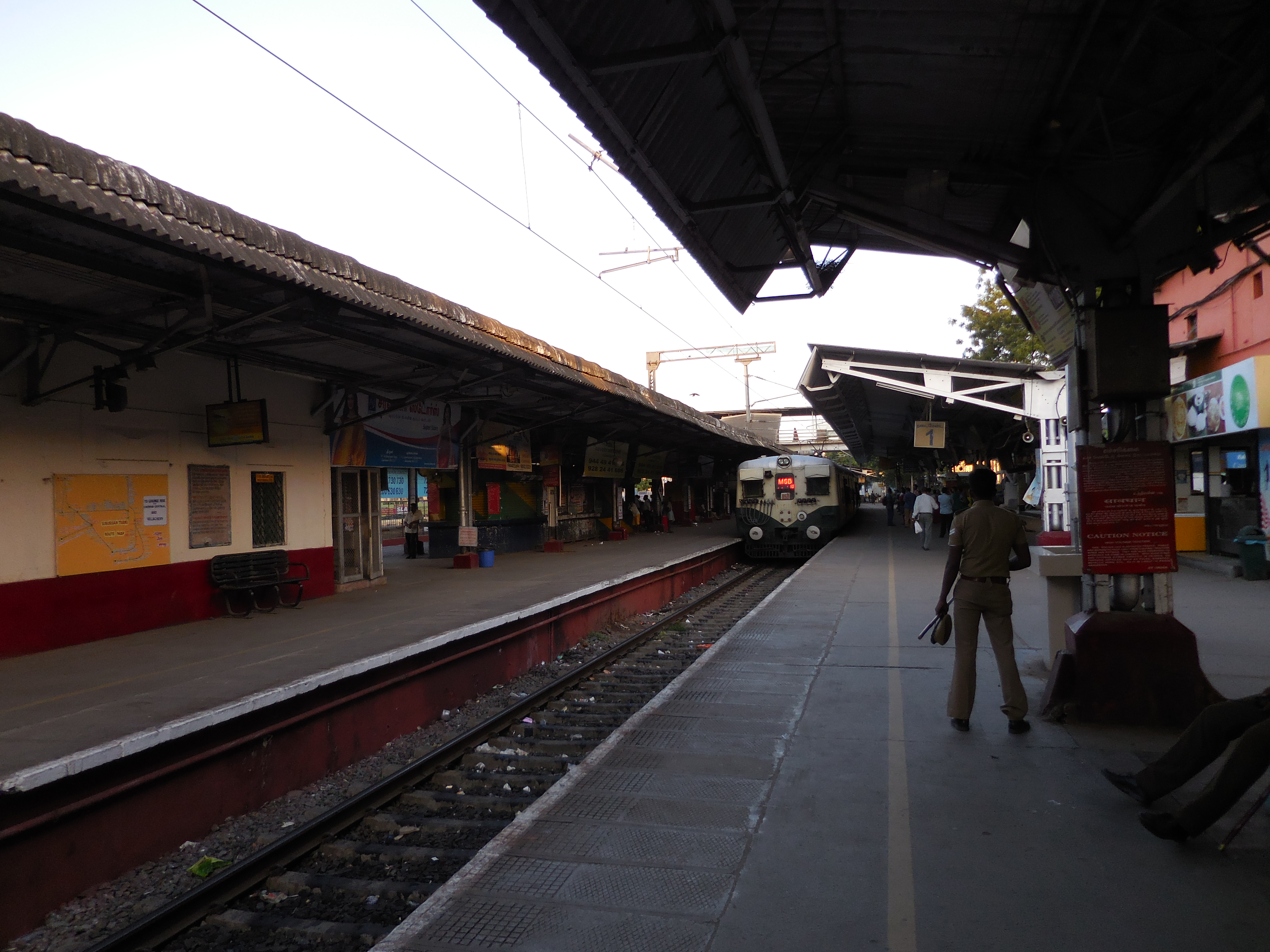 Chennai Park railway station view towards west, taken on 5 July 2014, 6:16 am